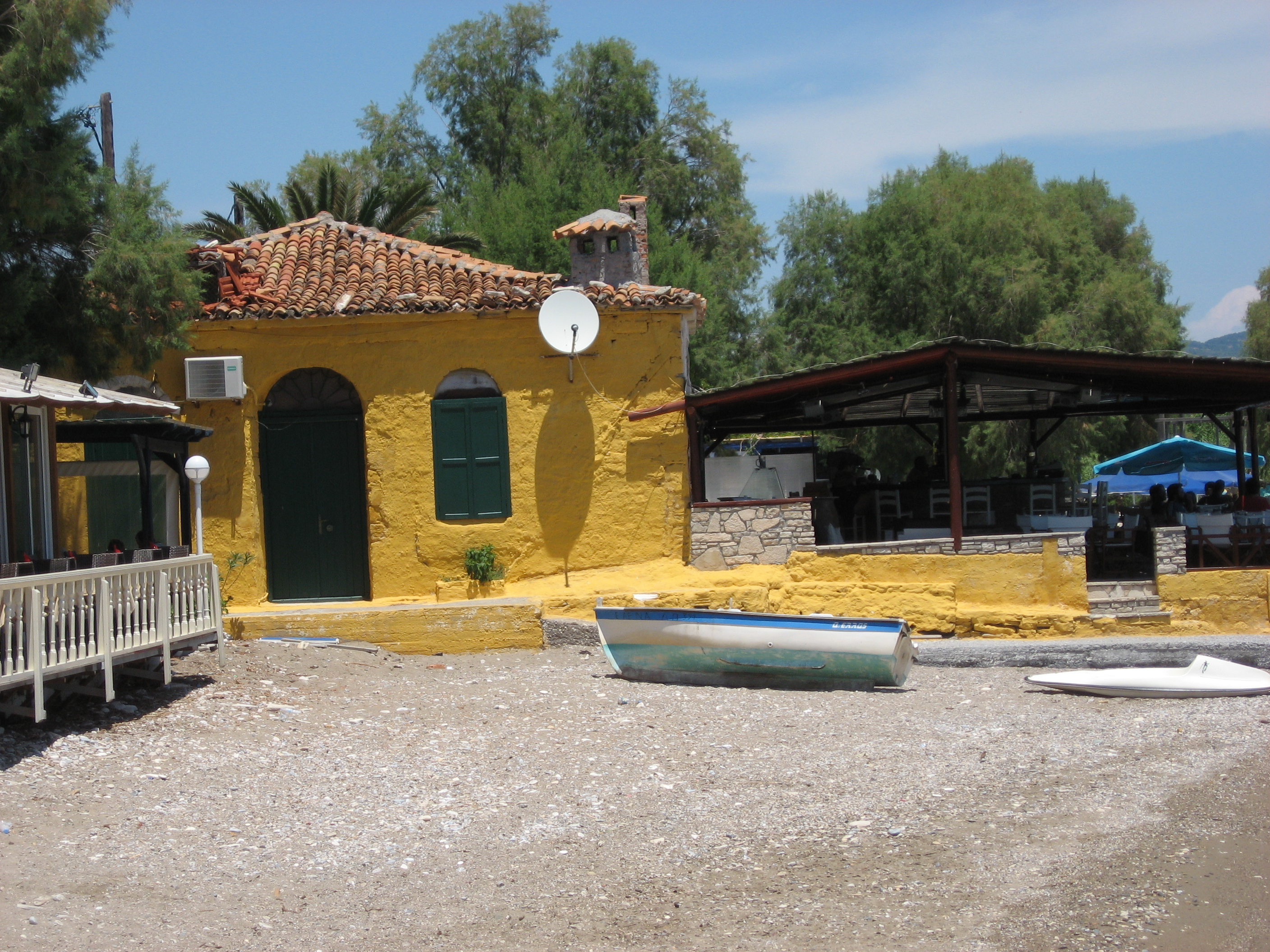 Ireon.